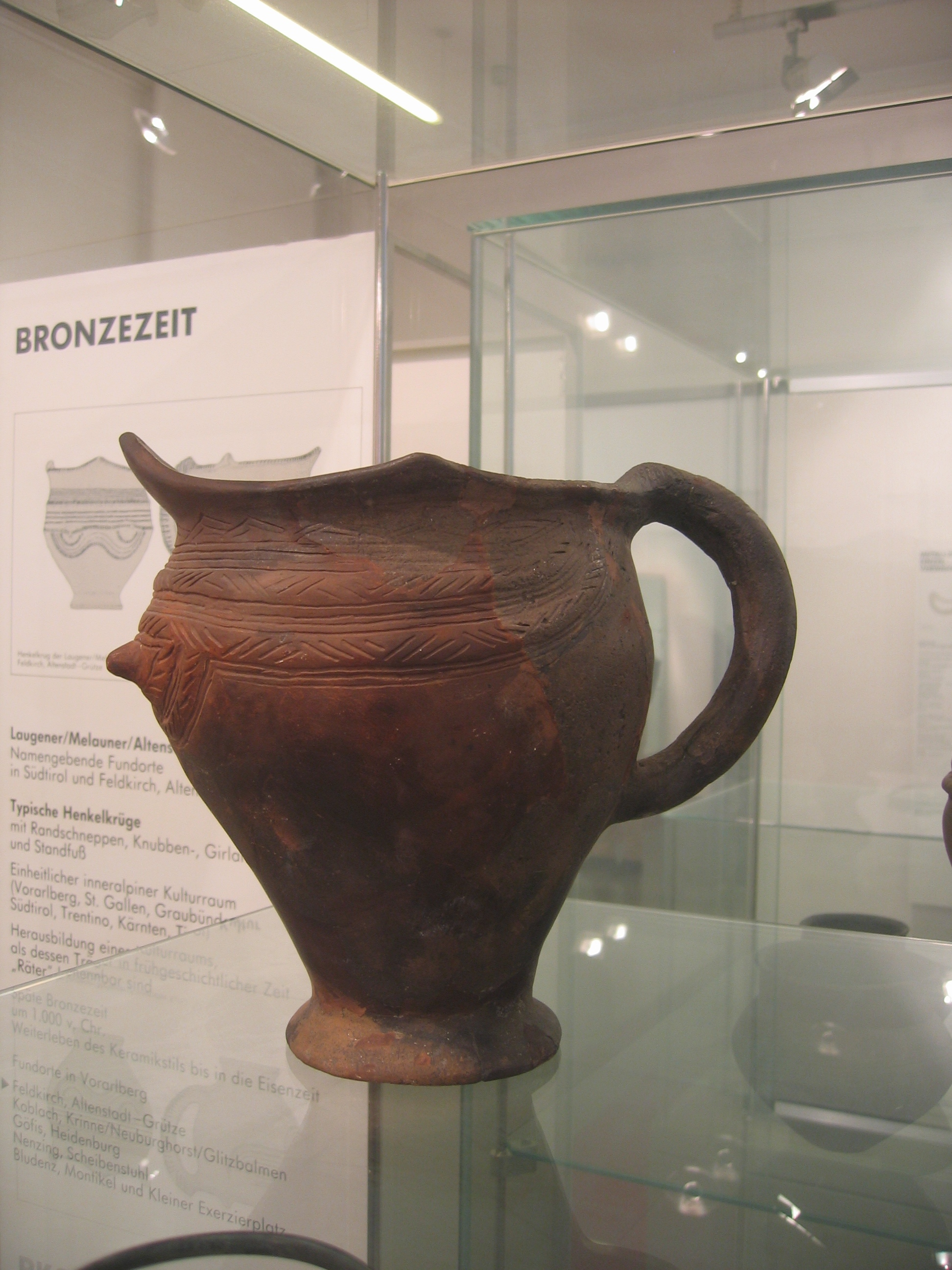 A jug of the Laugen Melaun Altenstätt Culture, found in Feldkirch Altenstadt-Grütze, Vorarlberg, Austria, around 1000 B.C. at Vorarlberger Landesmuseum Bregenz.